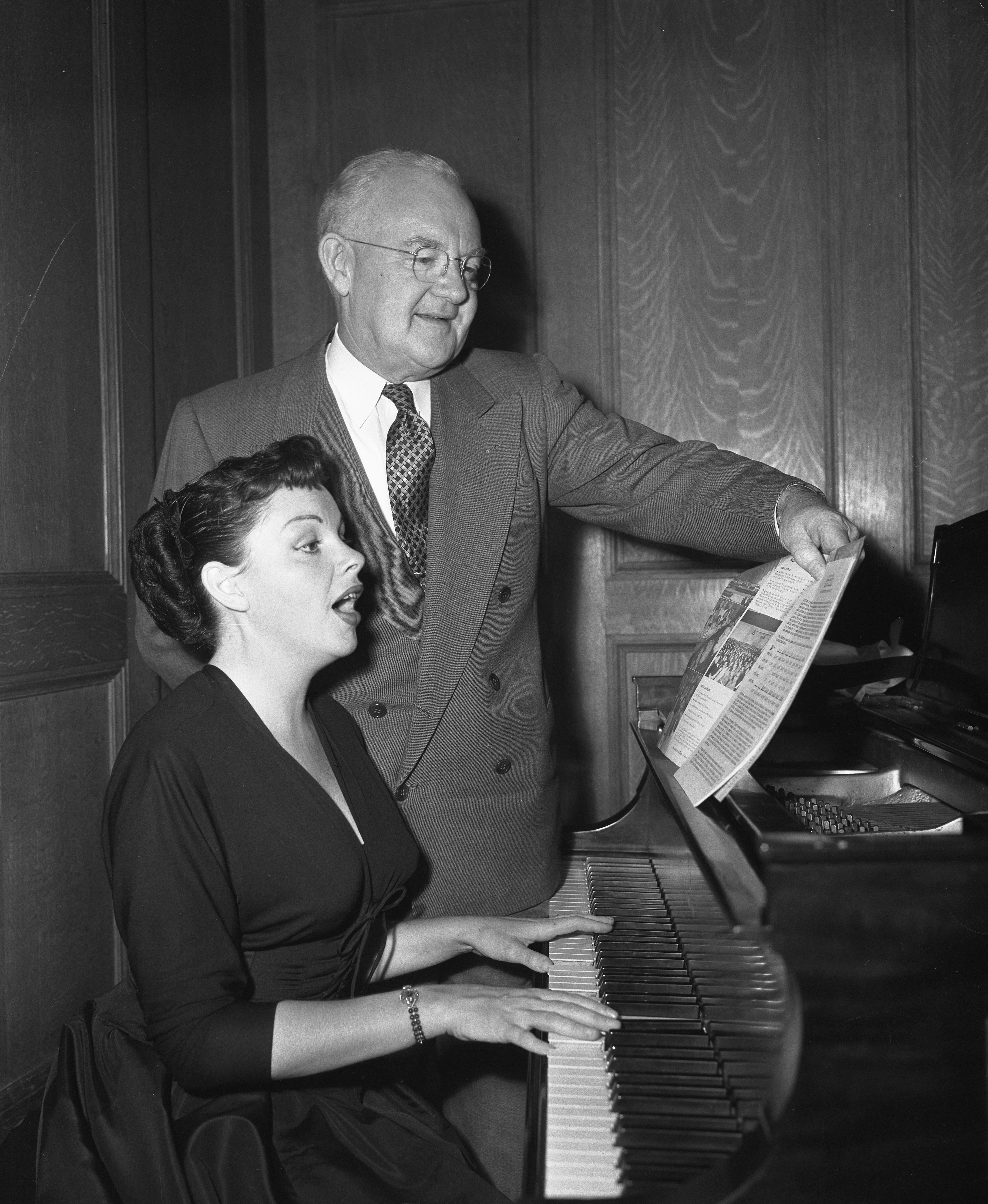 Judy Garland at piano with Los Angeles Mayor Fletcher Bowron publicity for Proclamation of Music Week, Calif., 1952